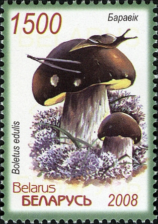 Stamp of Belarus